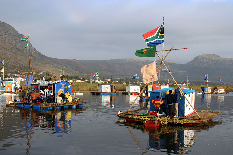 Rafts on Sandvlei during the Kon-Tiki Adventure for Scouts and Guides held every year at Lakeside in Cape Town.